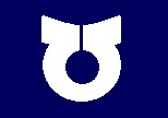 Flag of Hidaka Kochi